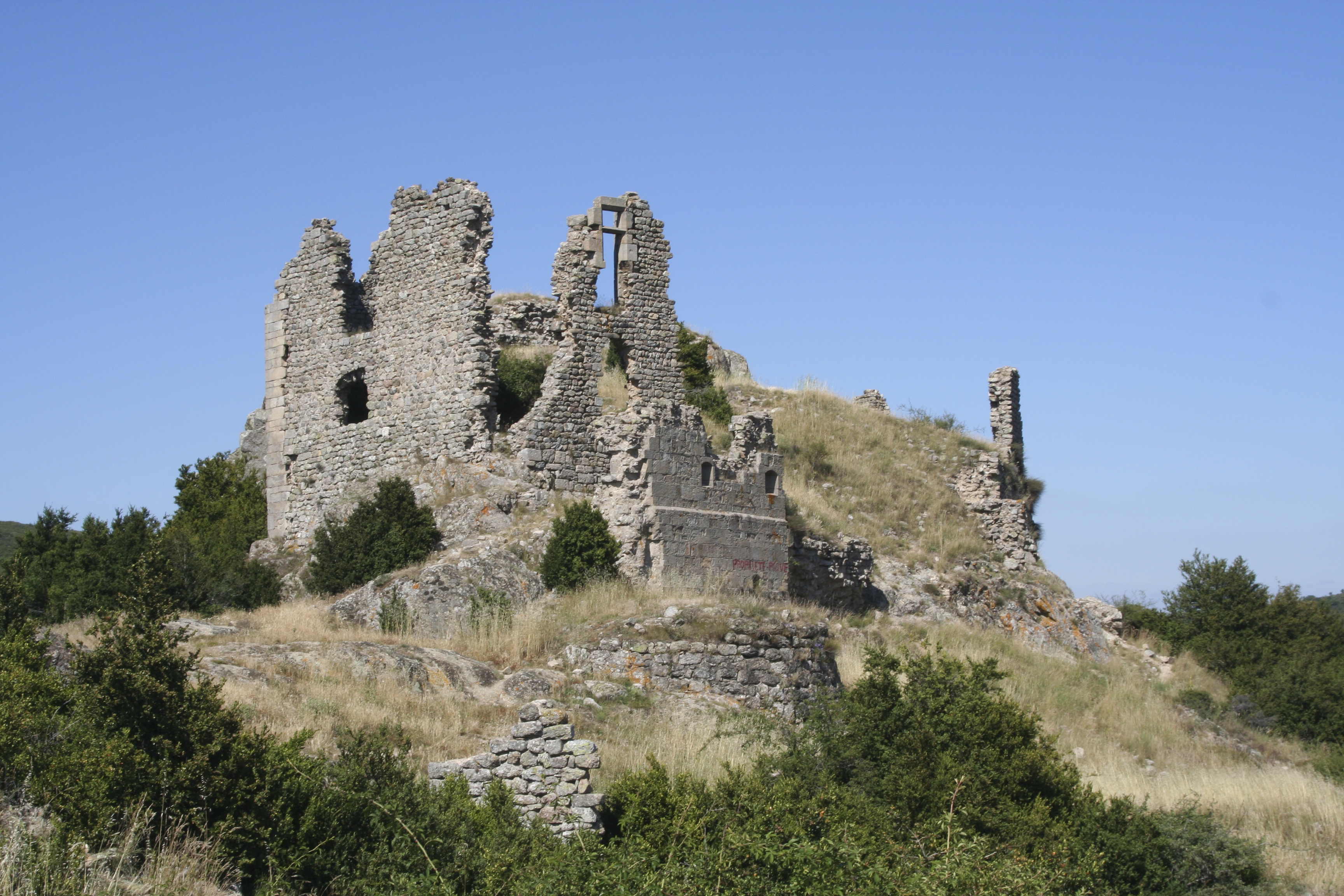 ruins of the castle of Pierregourde